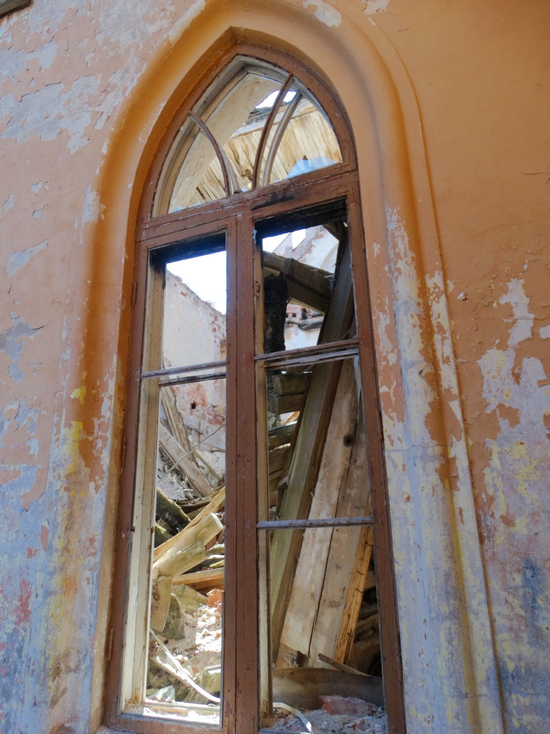 Šeduva manor, Raudondvaris, Radviliškis district, Lithuania